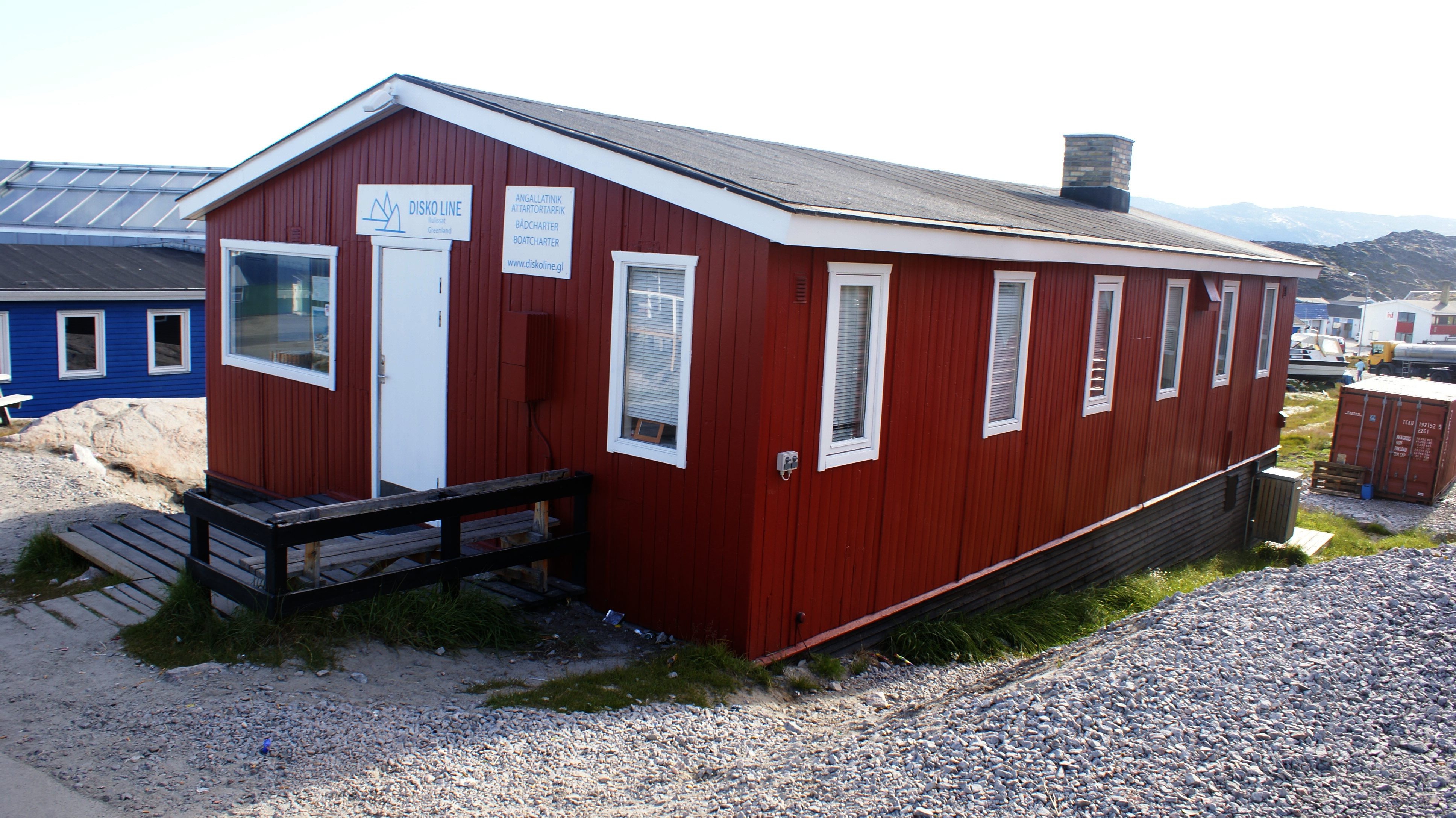 Headquarters of Diskoline A/S, Ilulissat, Greenland.